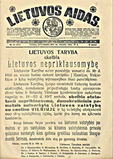 Front cover of Lietuvos aidas announcing that Council of Lithuania declared Lithuania as an independent state.